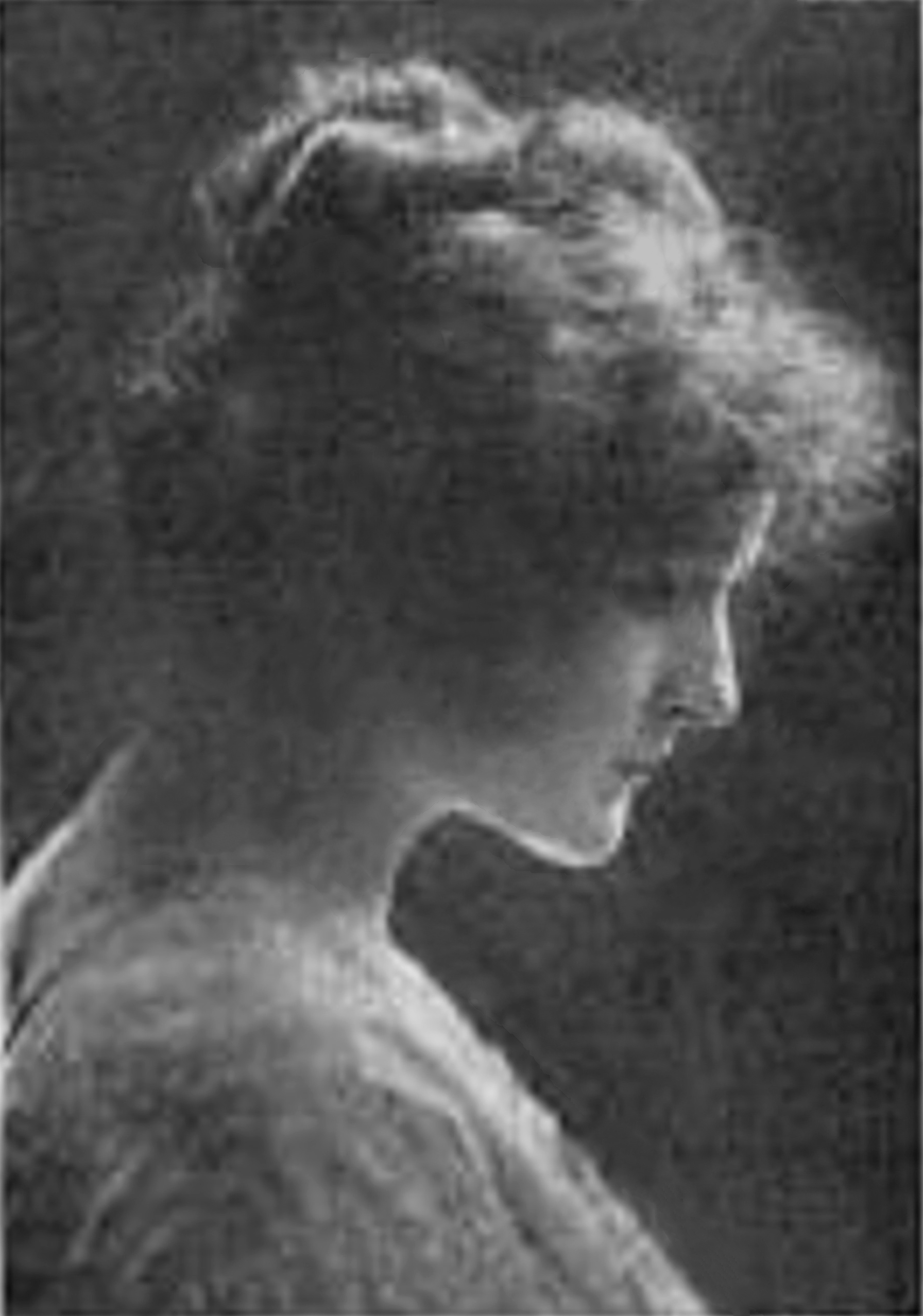 Clara Whipple was a silent film actress from Missouri, USA, who appeared in motion pictures from 1915 - 1919. She was also an author.